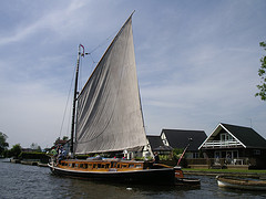 Taken by Edward Mooney, me.